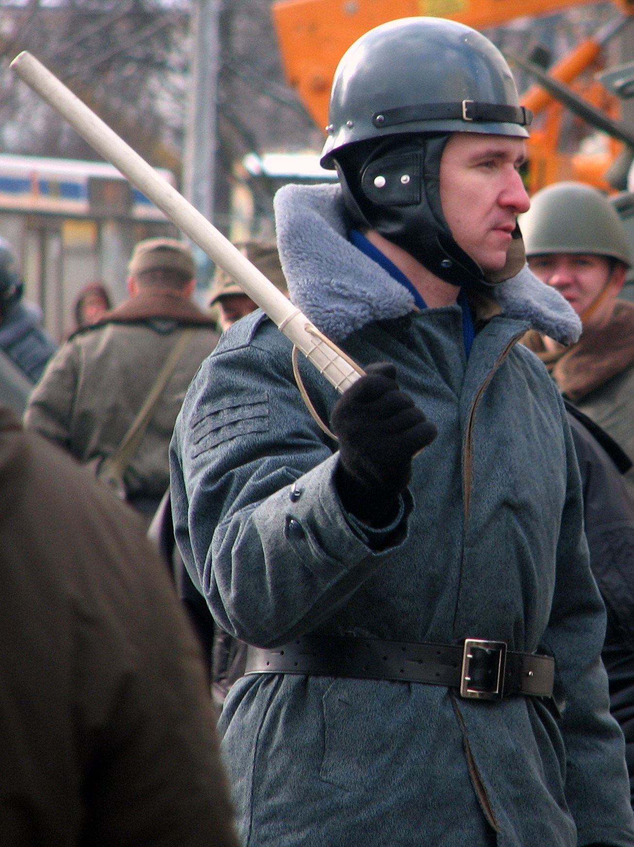 A Militia man from Poland in 1970, during filmmaking of 'Black Thursday' on crossway of ulica Świętojańska and Aleja Józefa Piłsudskiego in Gdynia. People on this picture are actors, background actors, other workers of film crew or workers of subcontractors. "Black Thursday" is film about Polish 1970 protests.